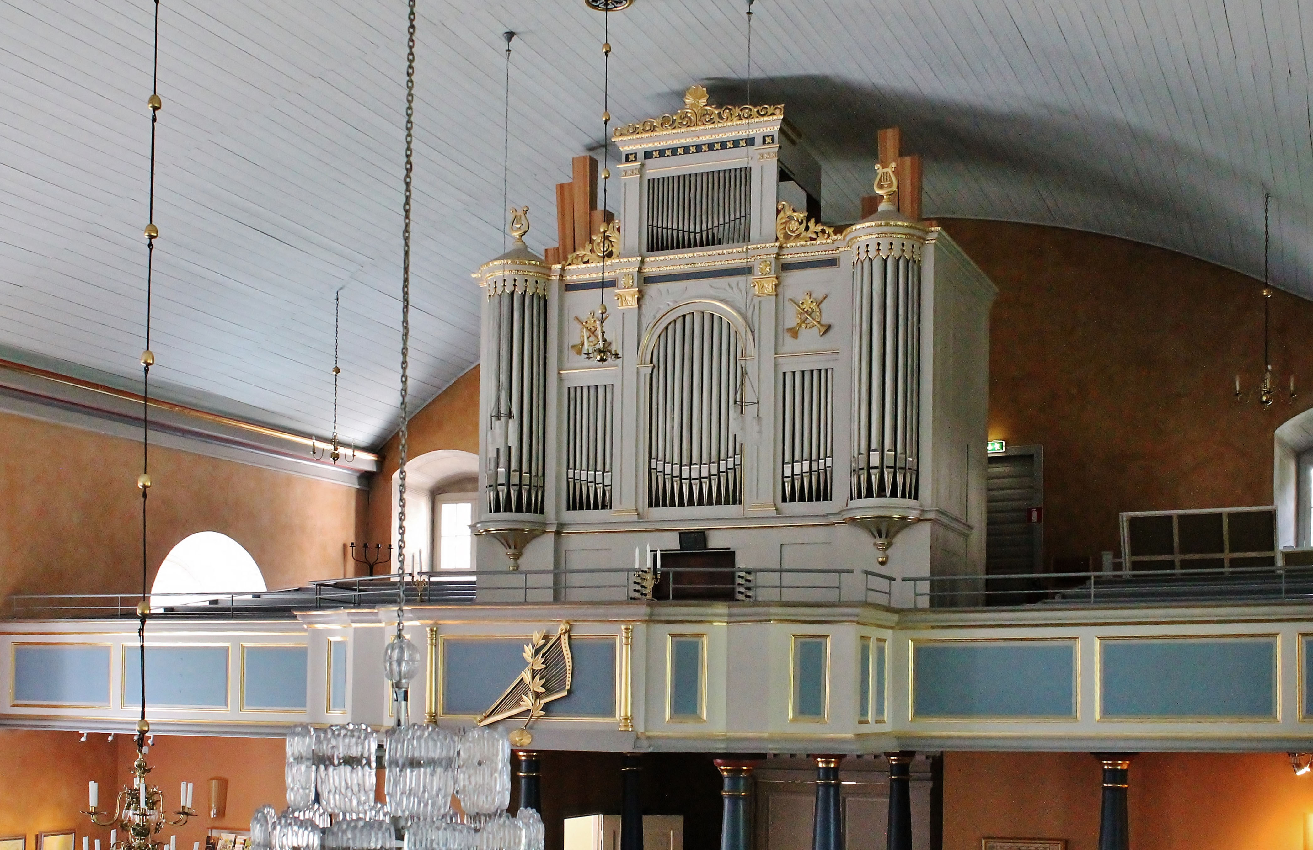 Ljuder Church.The organ